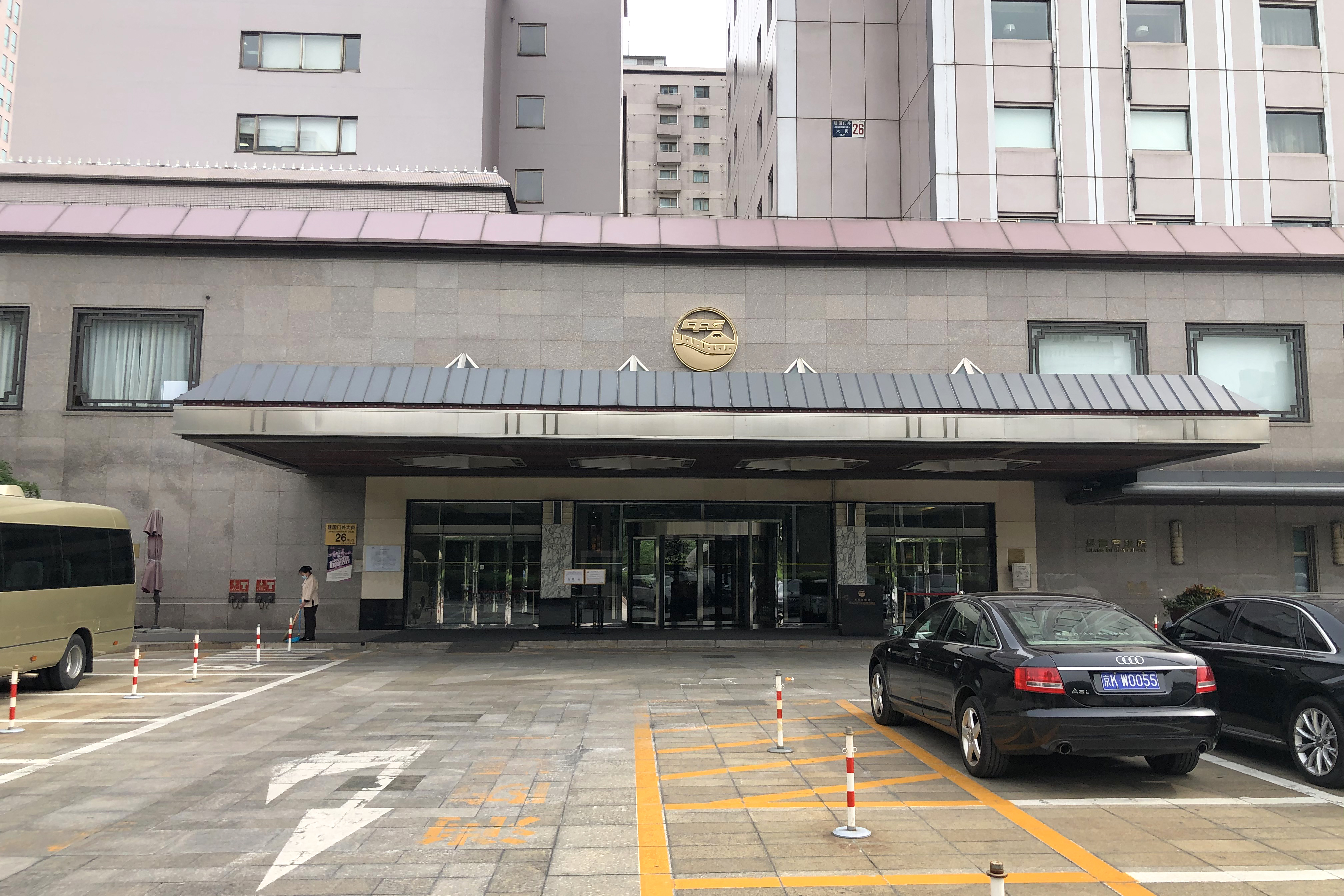 Chang stands for "长城" (Great Wall), and Fu stands for "富士山" (Mount Fuji). Both landmarks are included in the logo.